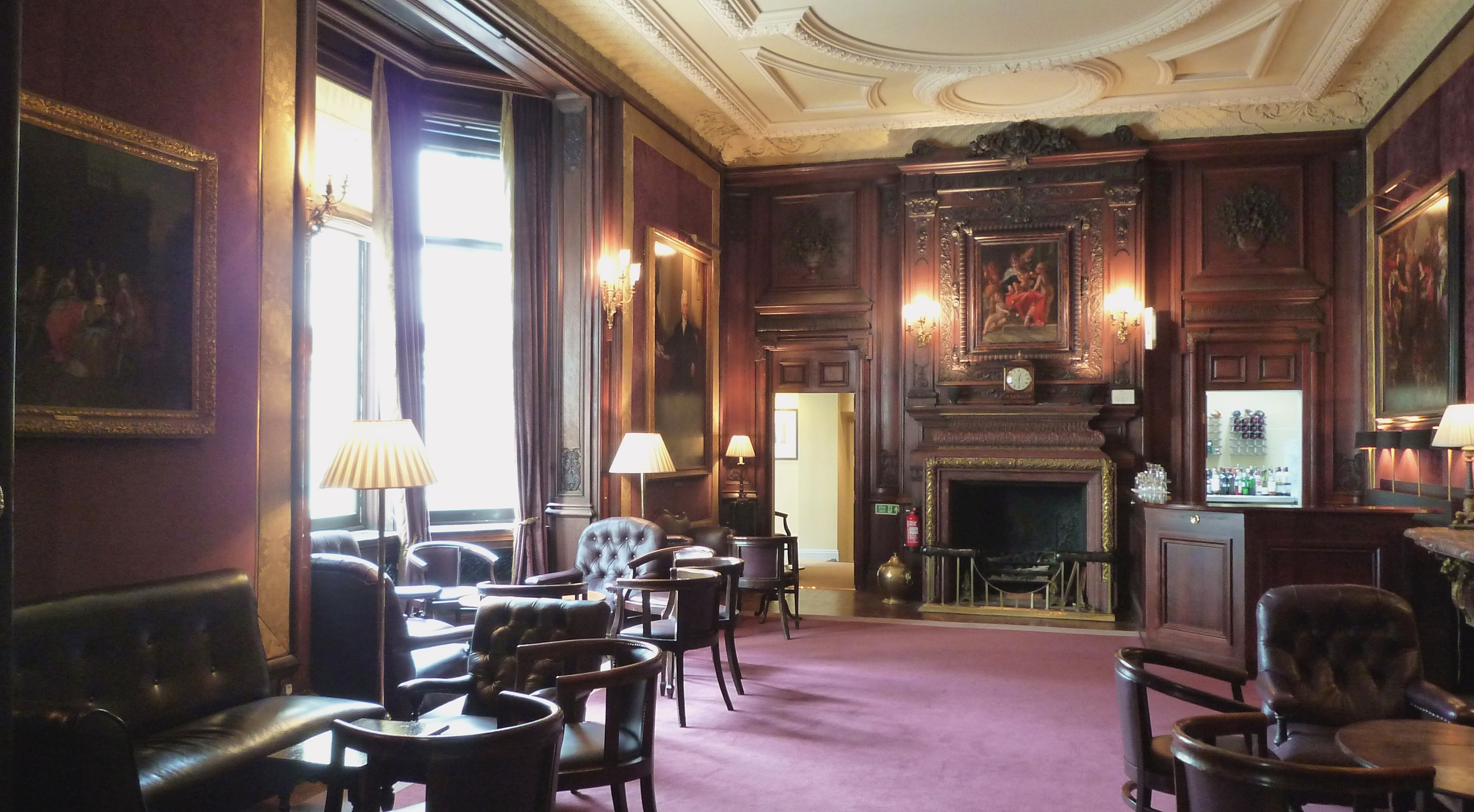 A veiw of the bar in the Savile Club after its refurbishment in 2009